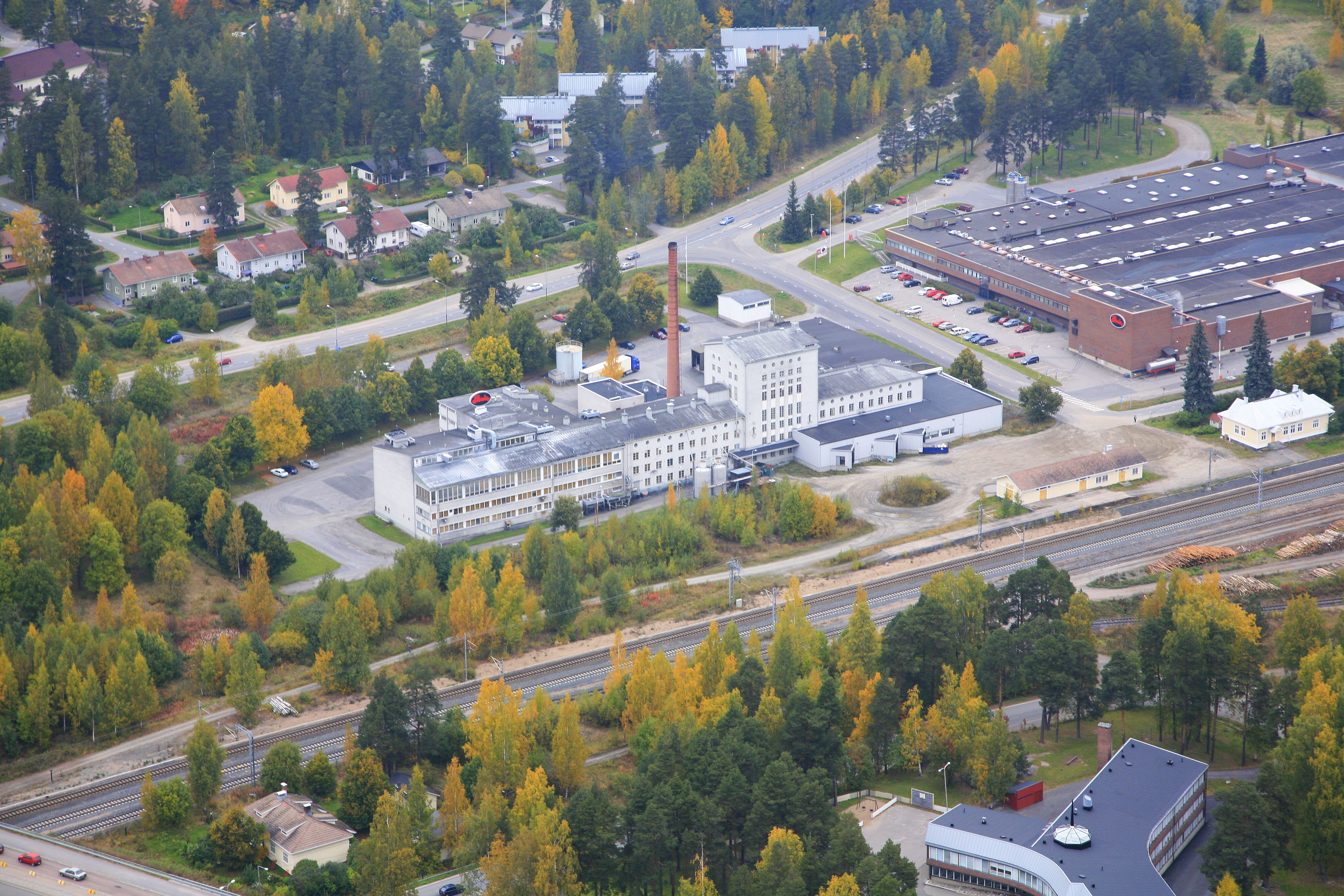 Panda factories from air